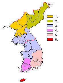 Demarcations of Korean Dialects by OGURA Shimpei.